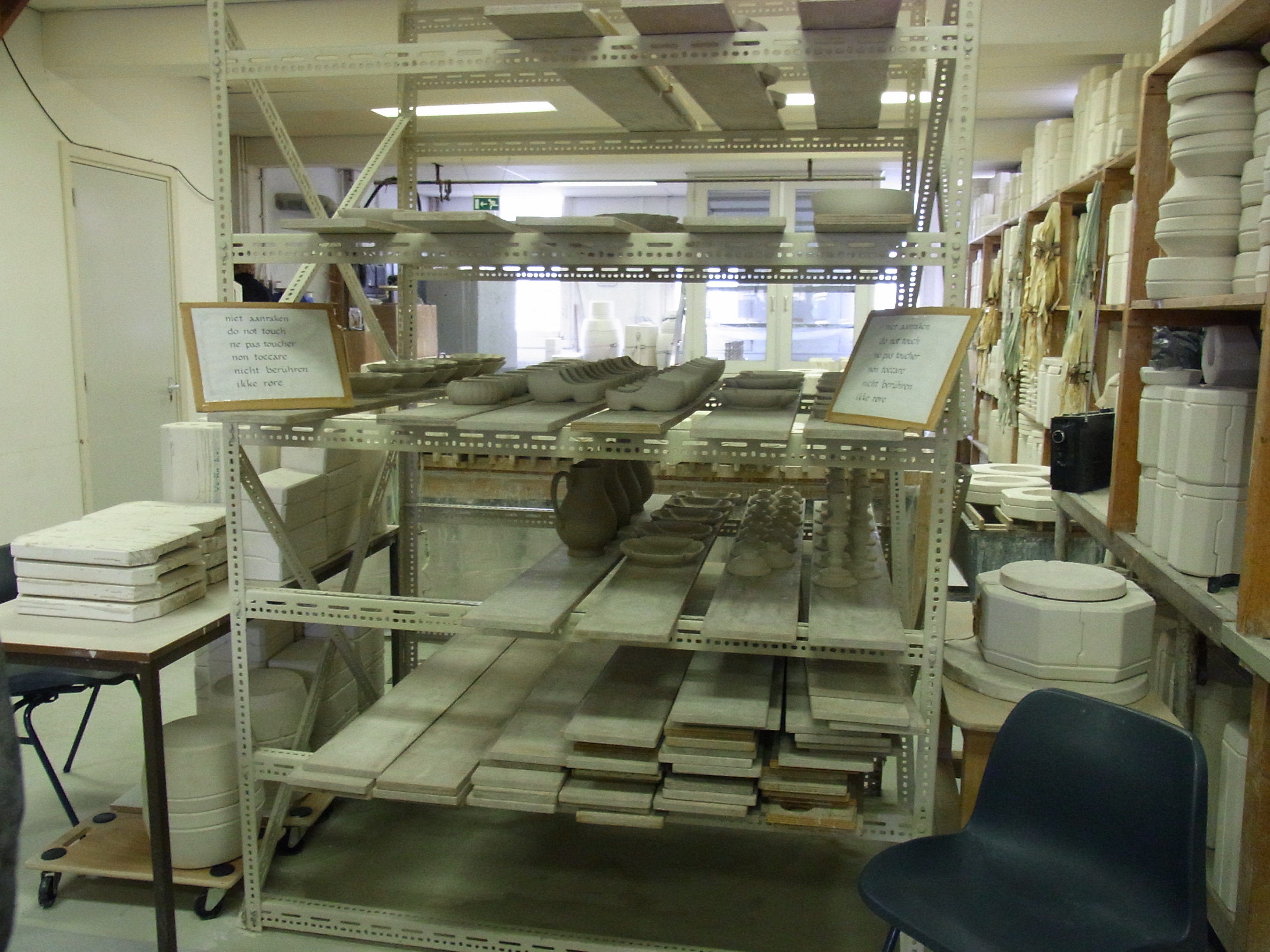 Delft pottery, Delfte Pauw ceramics workshop.